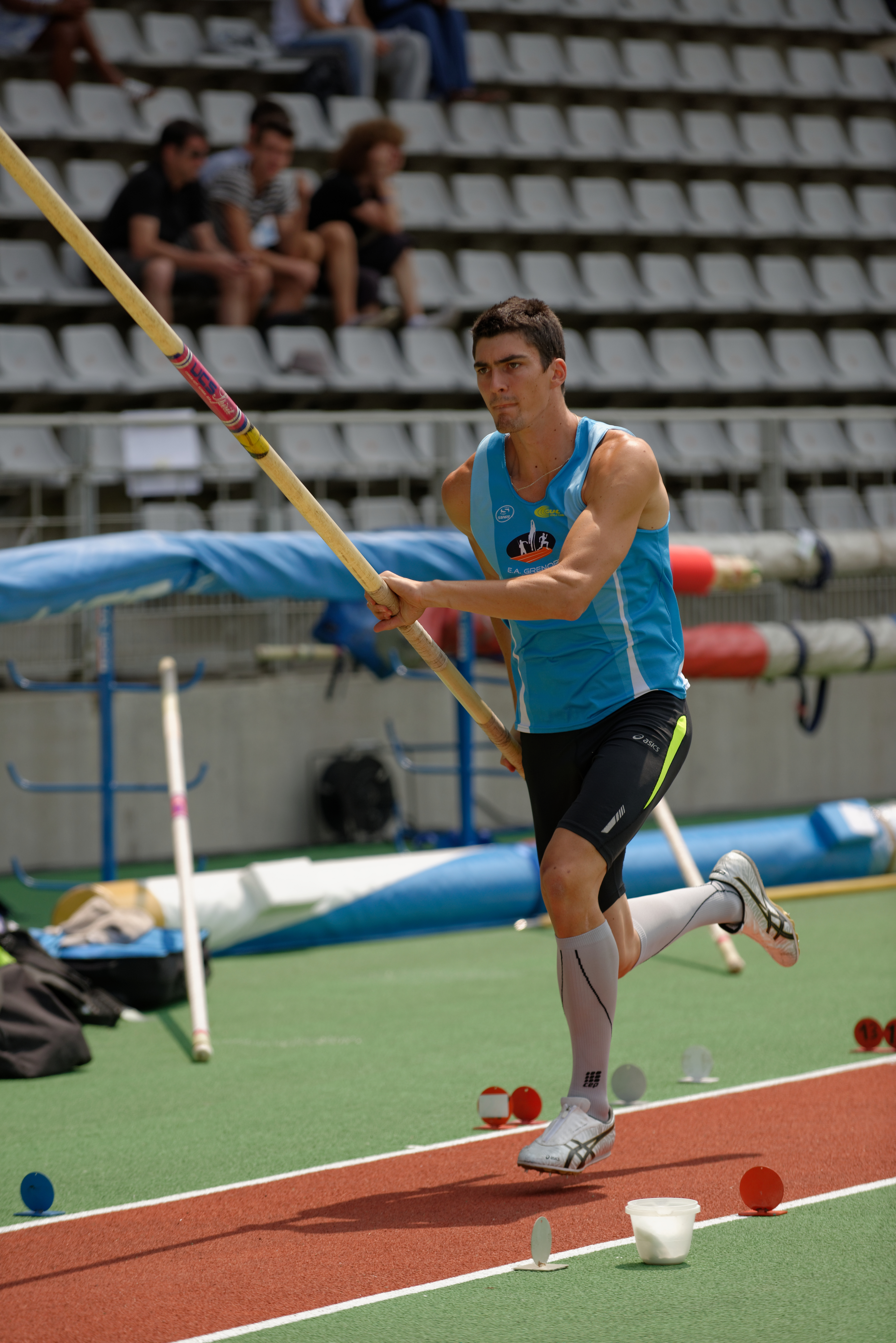 Bastien Auzeil competes in the men's decathlon pole vault final during the French Athletics Championships 2013 at Stade Charléty in Paris, 13 July 2013.